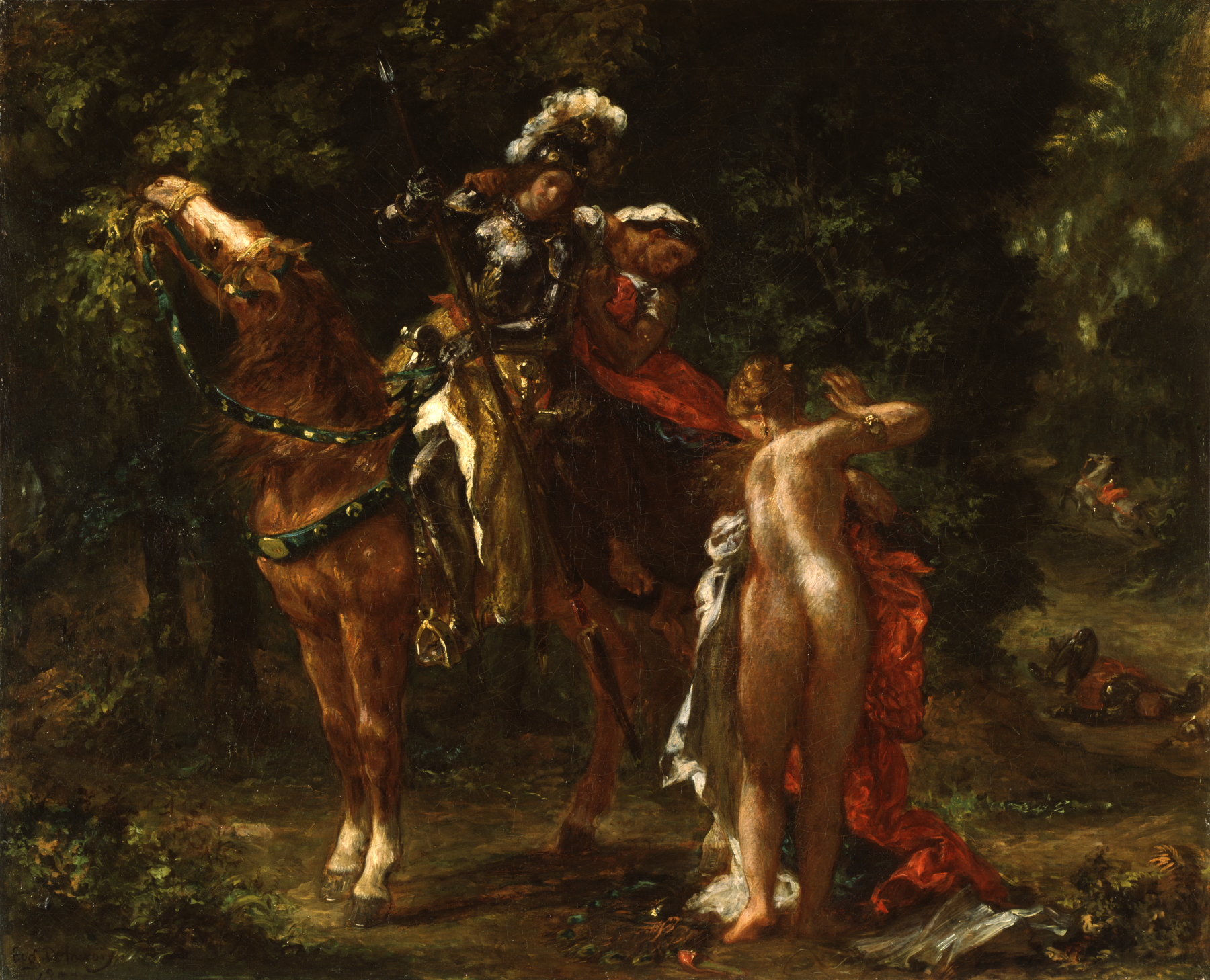 In his epic poem Orlando Furioso, Ludovico Ariosto relates how Marphise, the woman warrior, knocks the knight Pinabello off his horse after his lady had mocked Marphise's companion, the old woman Gabrina. In this scene, Pinabello lies on the ground, and his horse gallops off in the distance. The knight's lady, meanwhile, is forced to disrobe and give her fancy clothing to Gabrina. Marphise's horse, undisturbed by the drama, nonchalantly munches on the leaves overhead. Late in life, Delacroix frequently drew such subjects from 16th-century Italian literature, particularly from the works of Ludovico Ariosto and Torquato Tasso. In this late work, the artist has typically suppressed the delineation of the contours of the figures and relied on small strokes of unblended pigments to model their forms.